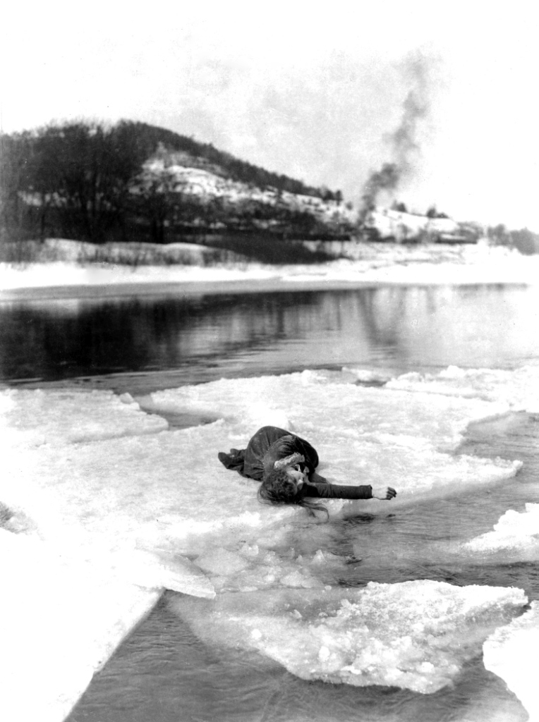 Lillian Gish on the White River Junction, Vermont, in the film Way Down East (1920).